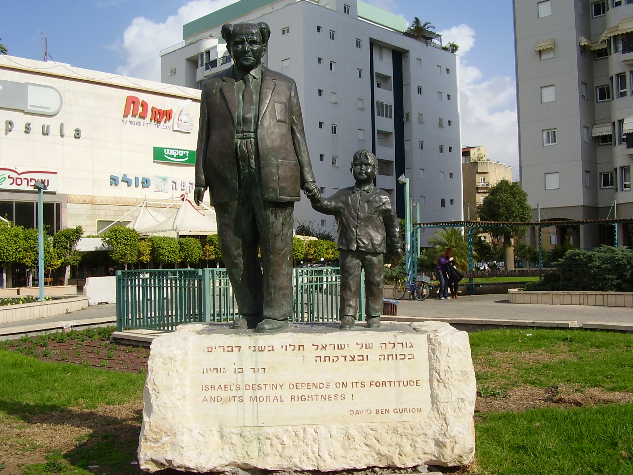 Statue of David Ben Gurion by Varda Giv'oli, Ilan Gelber and Zohar Haran in Rishon LeZion, Israel (1999) פסל של בן גוריון בראשון לציון